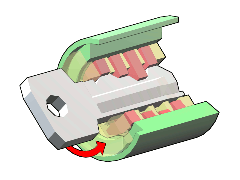 Illustration of the disc tumbler lock created by Wapcaplet in Blender and touched up in the GIMP. Category:Images created with Blender